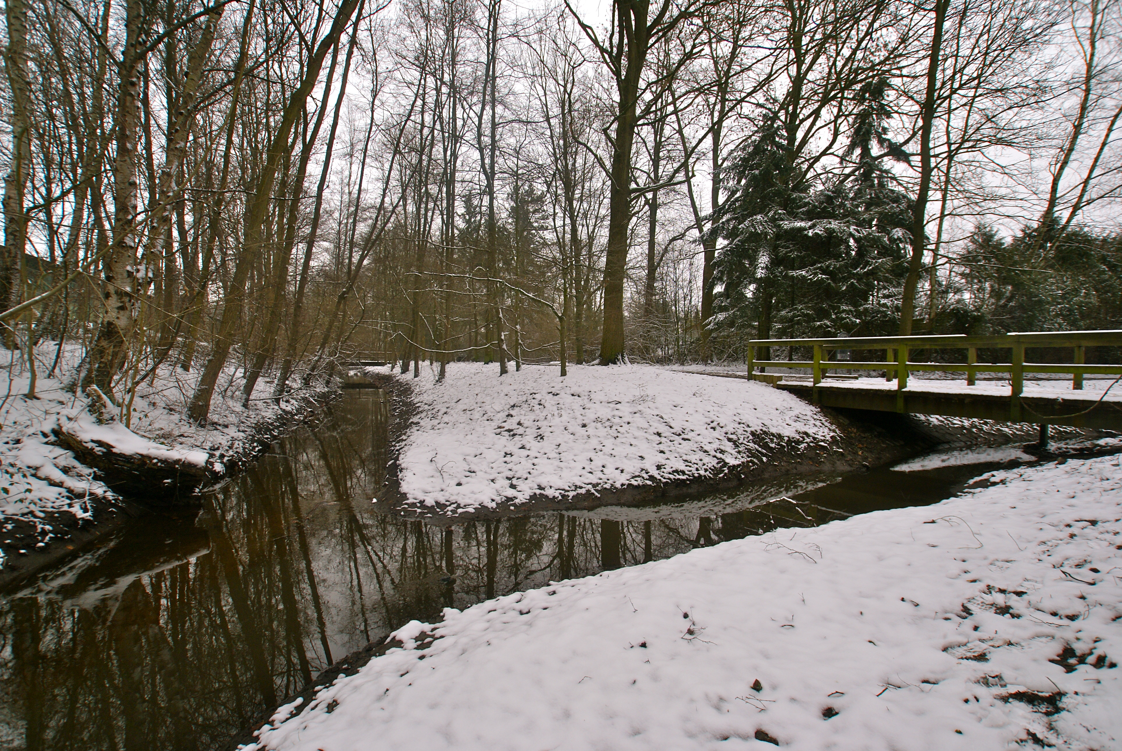 Hamburg (Niendorf), Germany: The confluence of the rivers Schippelmoorgraben (right) and the Kollau